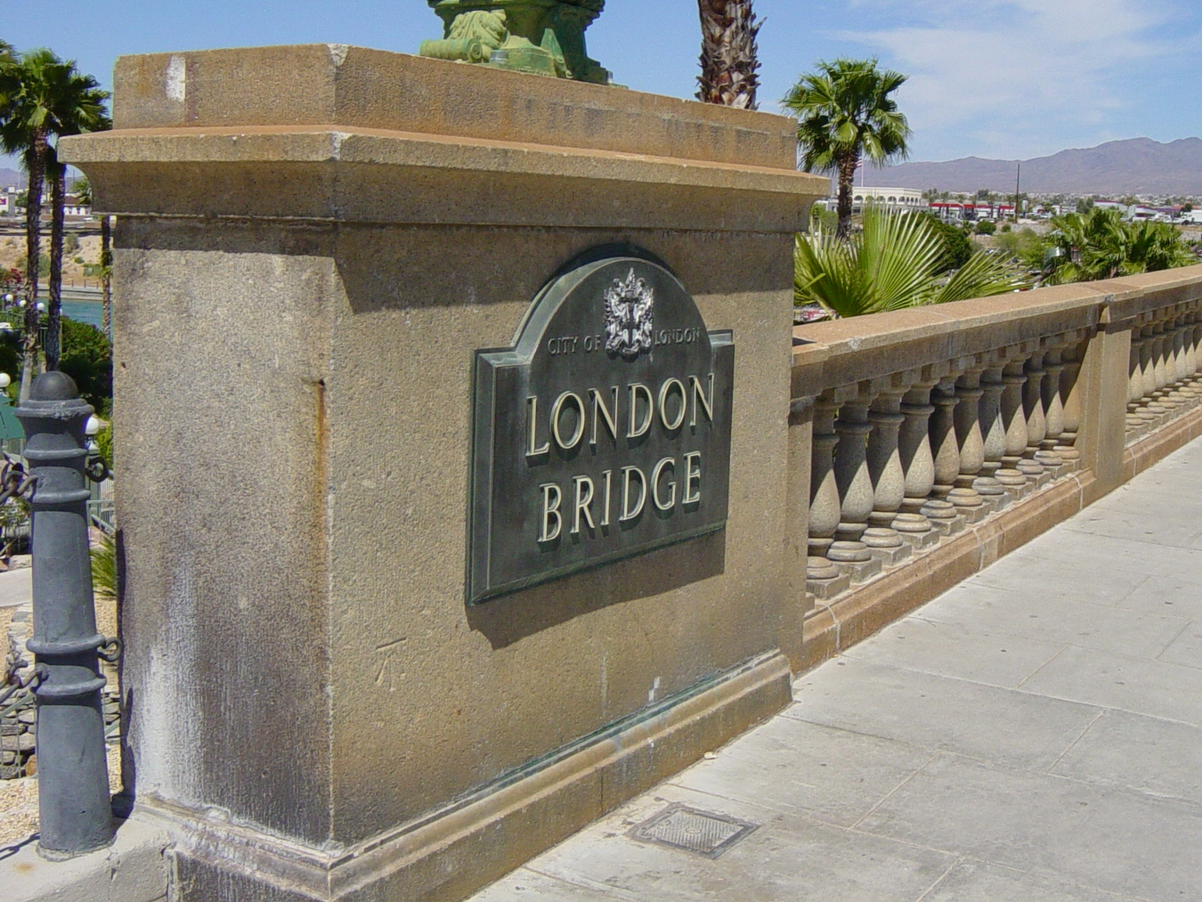 The sign on London Bridge, Lake Havasu City, Arizona, during April 2005.